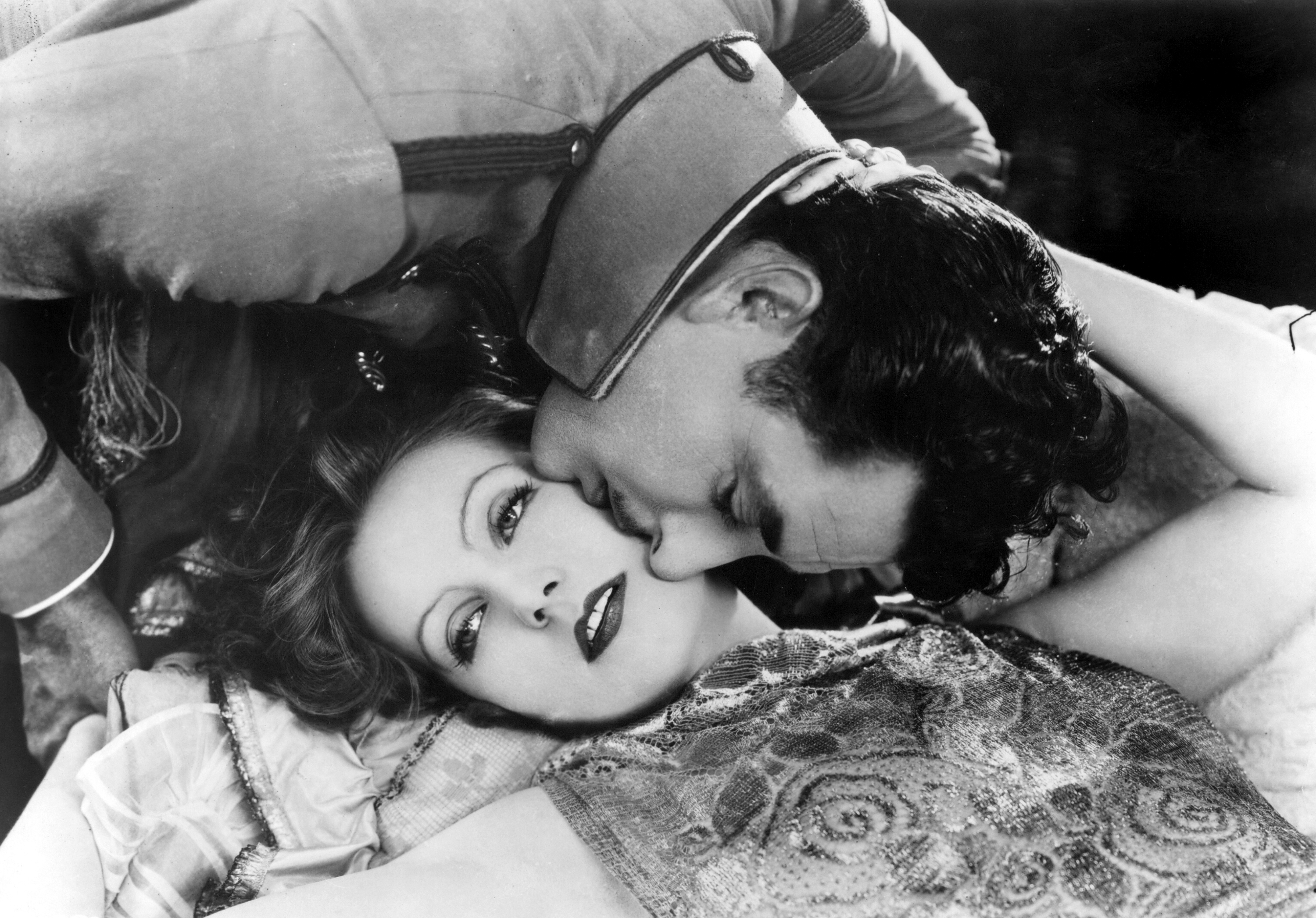 Greta Garbo and John Gilbert in a publicity image for Flesh and the Devil (1926).